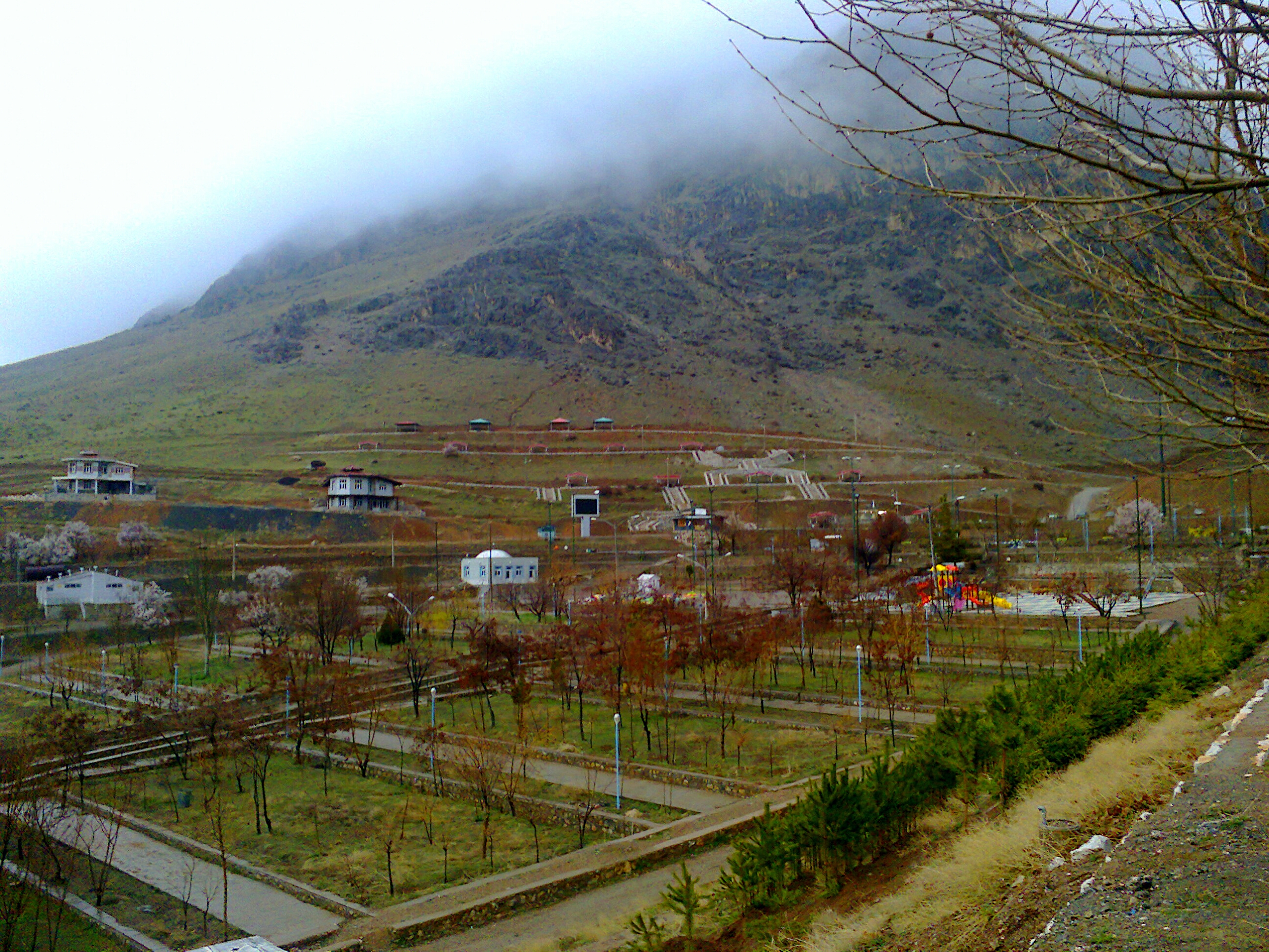 Fereydunshahr, Moallem Park